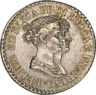 Italy, Lucca & Piombino. Elisa Bonaparte & Felice Baciocchi (1805-1814). AR Franco (22mm, 4.99 g, 6h). FELICE ED ELISA PP DI LUCCA E PIOMBINO, jugate busts of Elisa Bonaparte and her husband right PRINCIPATO DI LUCCA E PIOMBINO, 1806 in exergue, 1/FRANCO in two lines across field; all within wreath. CNI XI pg.199, 7; Pagani 256; KM 23. Elisa Bonaparte, sister of Napoleon, was one of the many family members installed as petty rulers over portions of the empire.